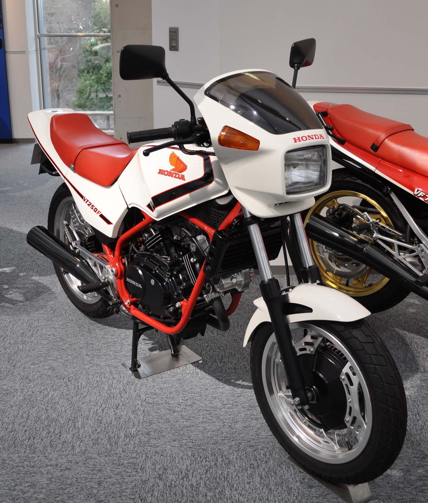 Honda VT250F (1982)